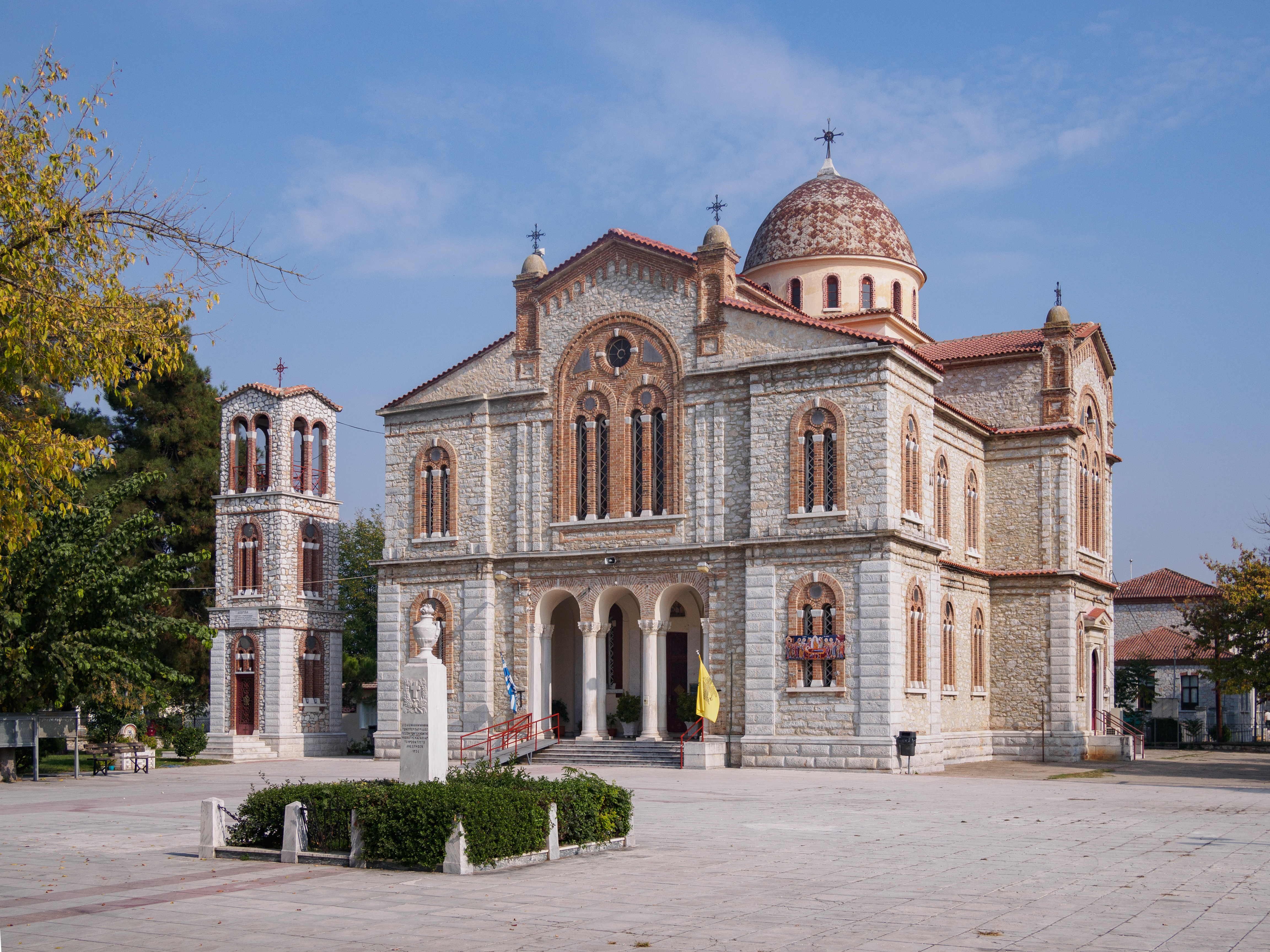 The church of Mary in Ampelonas, Larissa Prefecture, built in 1895.